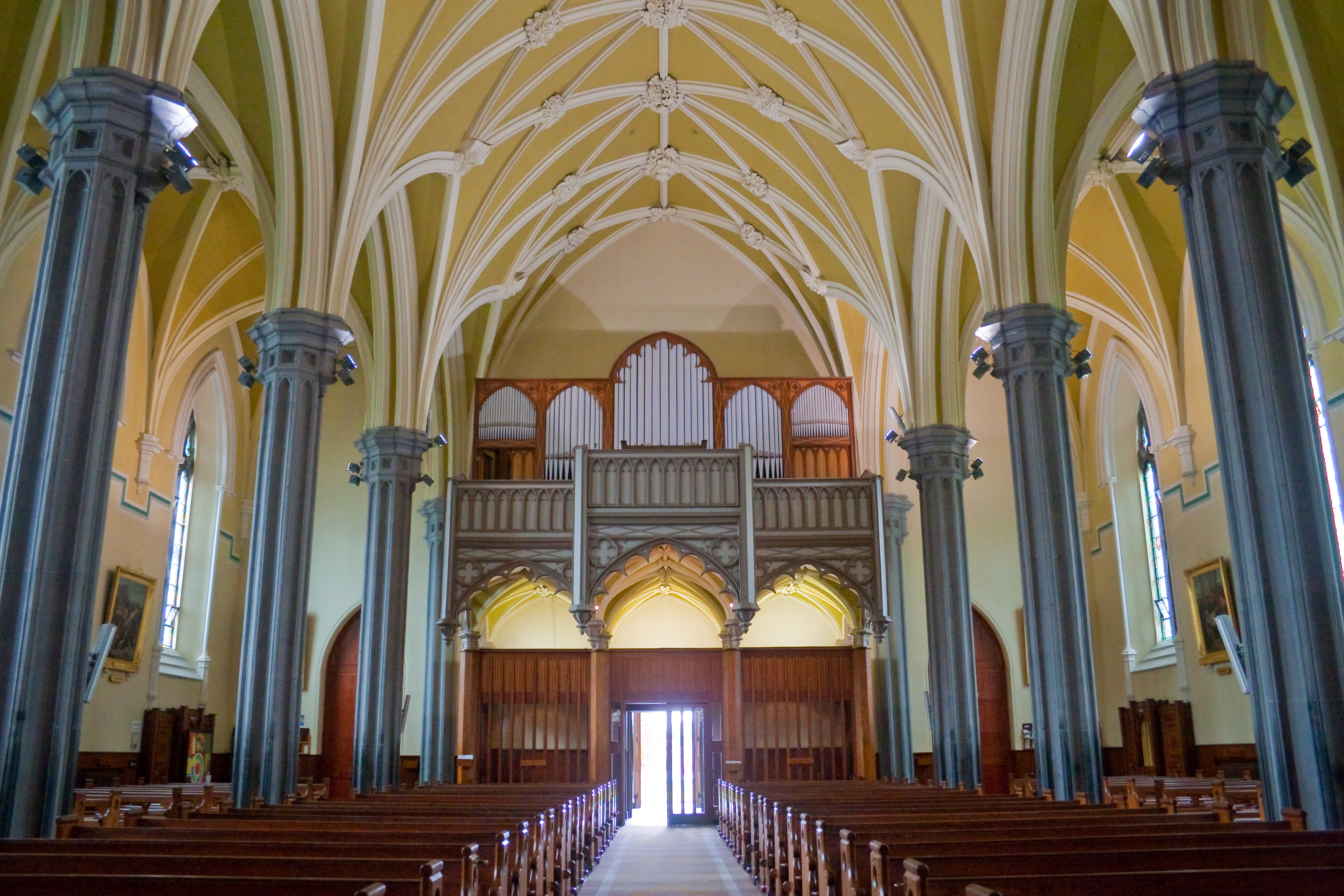 Tuam, County Galway, Ireland View of the nave of the Cathedral of the Assumption, looking west.